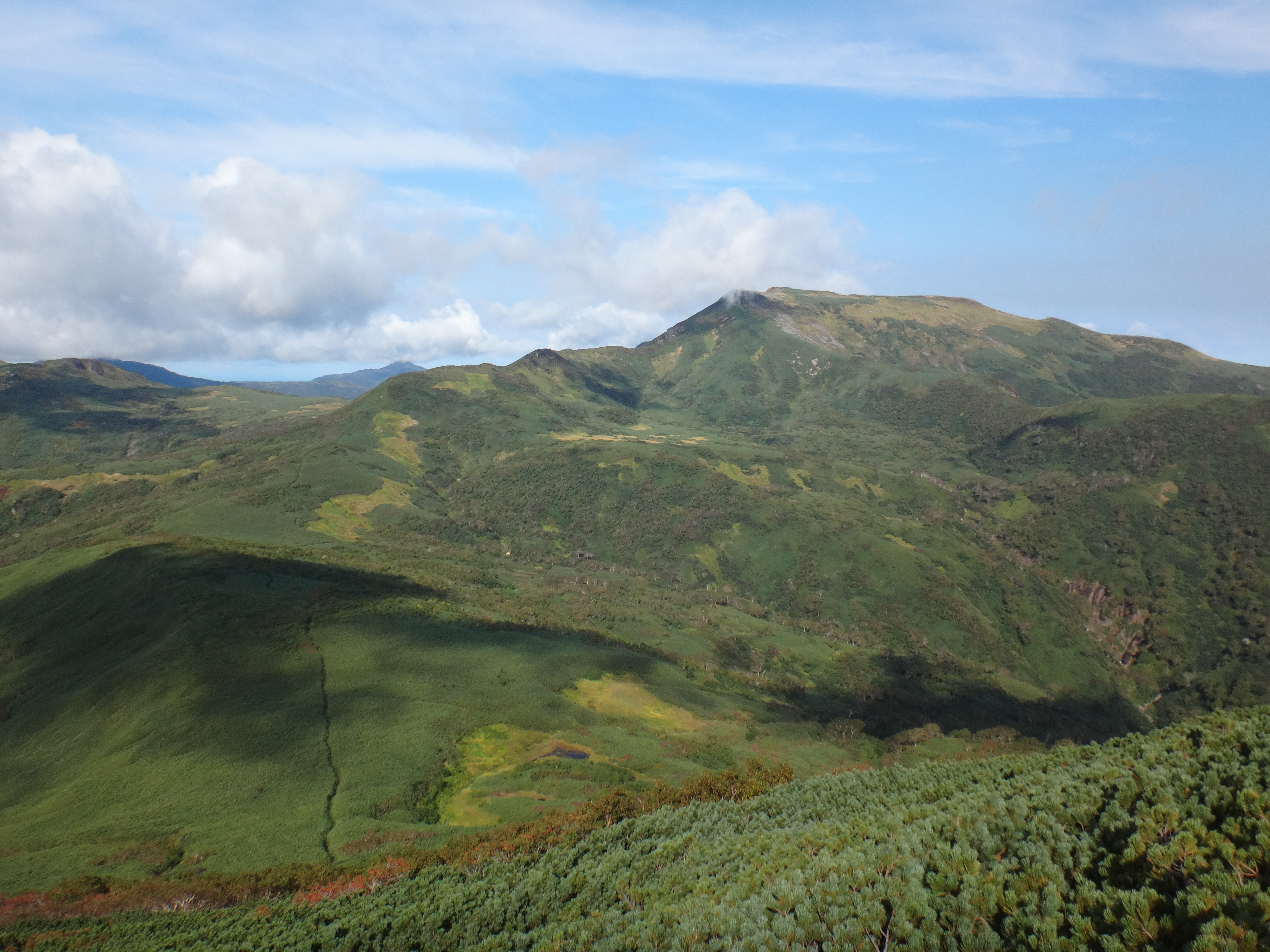 Mount Shokanbetsu (Shokanbetsudake) seen from the SE. Taken from Mount Minamishokan (Minamishokandake)